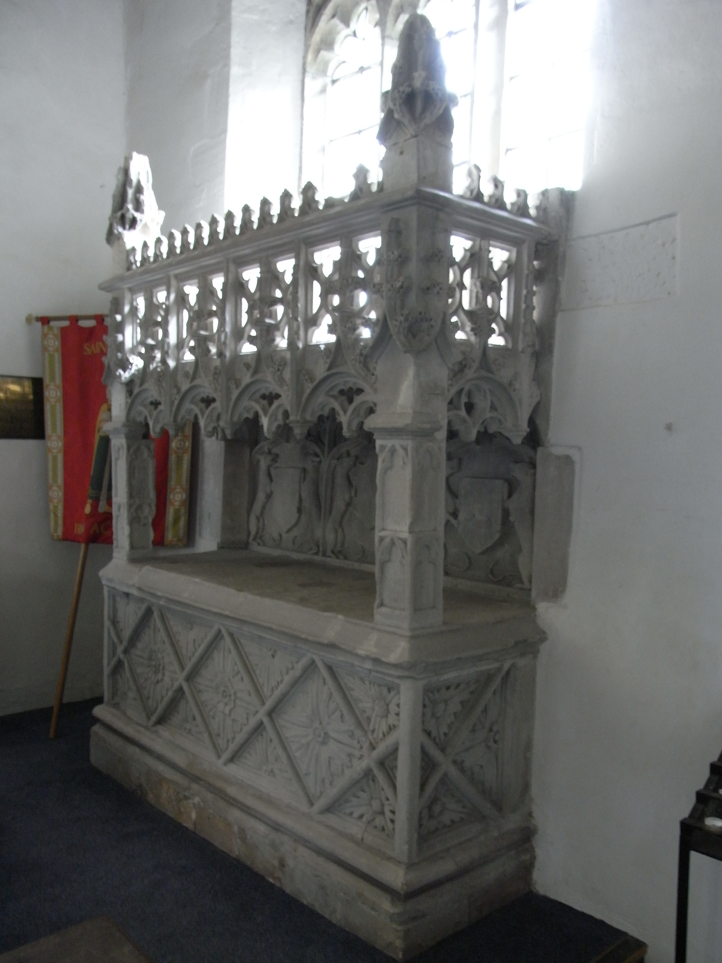 16th c. Canopied Tomb of a member of the Poyntz family, south wall of Poyntz Chapel, Iron Acton Church, Gloucestershire.